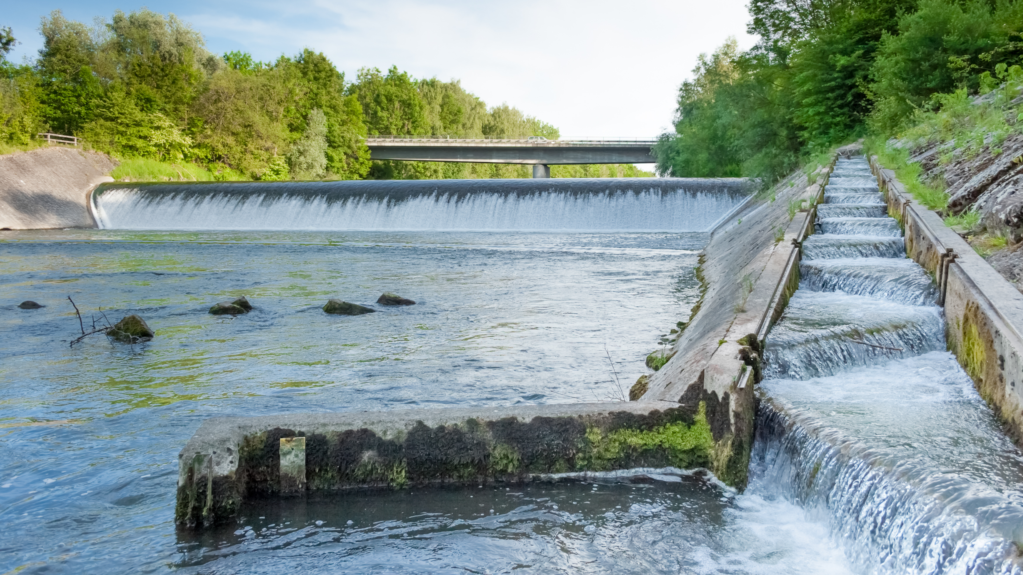 Iller water stair